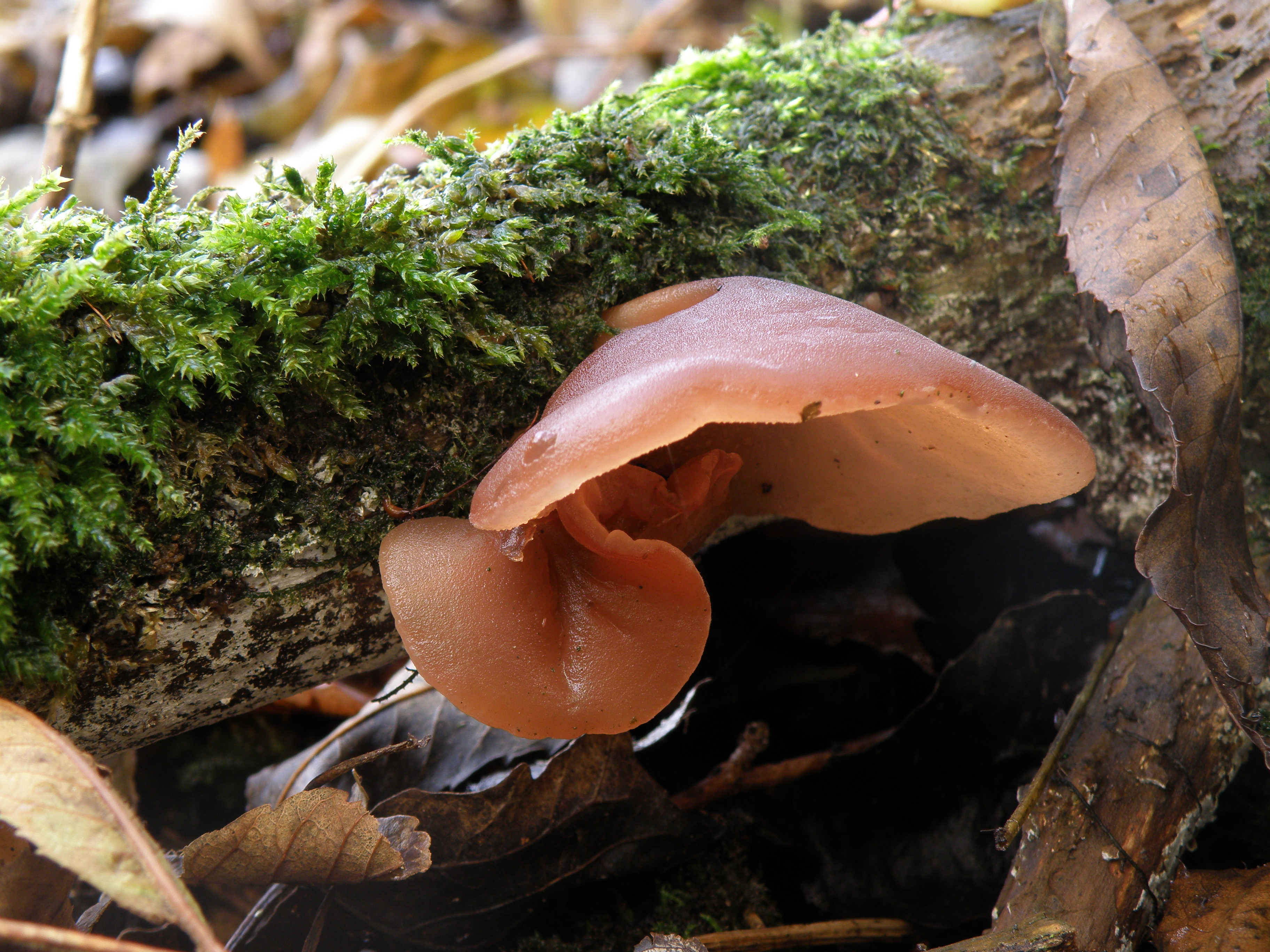 Auricularia auricula-judae (Bull.) Quél. Location: Lancaster University, Lancaster, England Observation Notes: Found on a fallen brach. There were a lot of these about. For more information about this, see the observation page at Mushroom Observer.